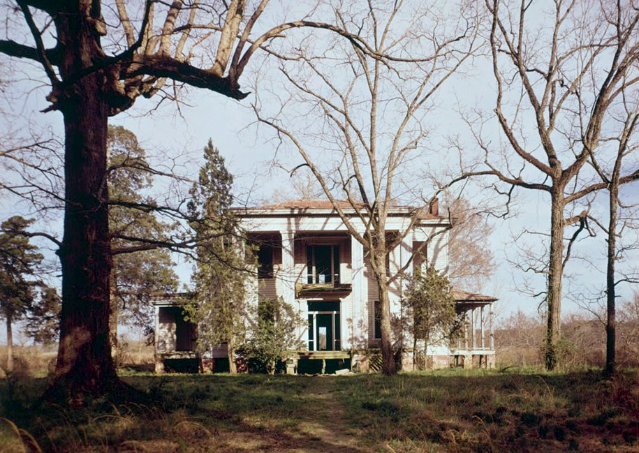 Cox House, Old Aberdeen Road, Columbus vicinity, (Lowndes County, Mississippi) cropped, ms9 This file comes from the Historic American Buildings Survey (HABS), Historic American Engineering Record (HAER) or Historic American Landscapes Survey (HALS). These are programs of the National Park Service established for the purpose of documenting historic places. Records consist of measured drawings, archival photographs, and written reports. When reusing please credit: Library of Congress, Prints & Photographs Division, MS-264 This tag does not indicate the copyright status of the attached work. A normal copyright tag is still required. See Commons:Licensing. This work is in the public domain in the United States because it is a work prepared by an officer or employee of the United States Government as part of that person’s official duties under the terms of Title 17, Chapter 1, Section 105 of the US Code. Note: This only applies to original works of the Federal Government and not to the work of any individual U.S. state, territory, commonwealth, county, municipality, or any other subdivision. This template also does not apply to postage stamp designs published by the United States Postal Service since 1978. (See § 313.6(C)(1) of Compendium of U.S. Copyright Office Practices). It also does not apply to certain US coins; see The US Mint Terms of Use. This file has been identified as being free of known restrictions under copyright law, including all related and neighboring rights. {PD